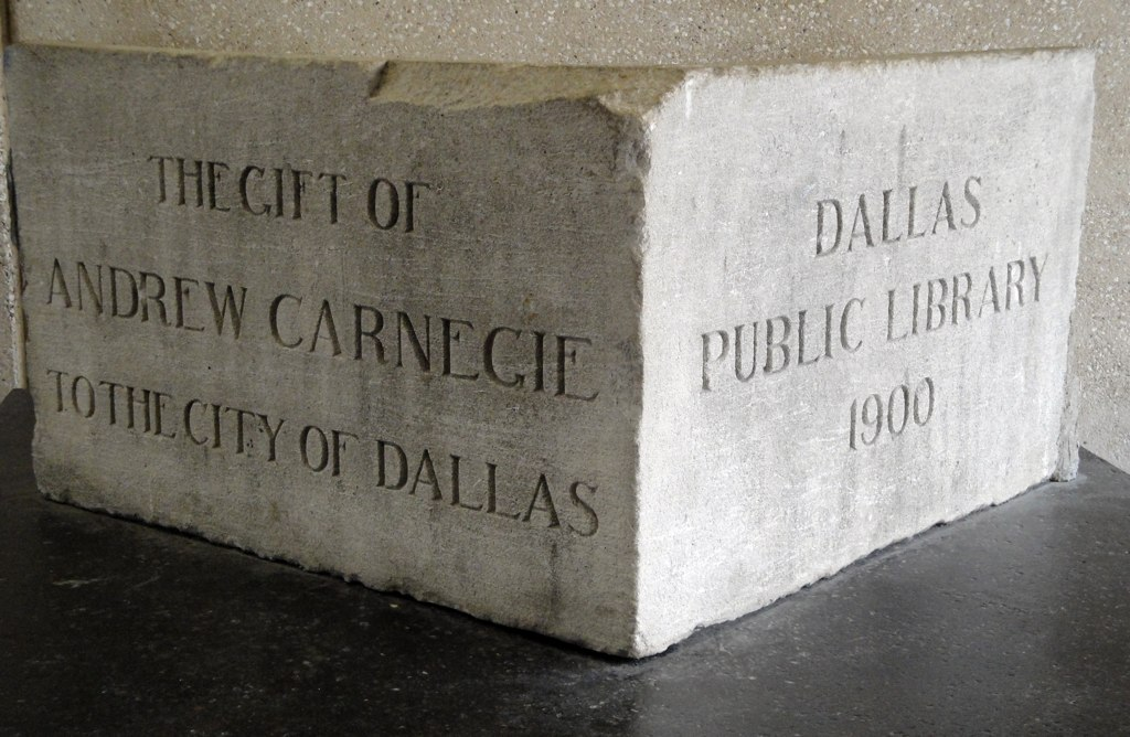 Cornerstone of the Dallas Public Library's original Carnegie Library in downtown Dallas, Texas